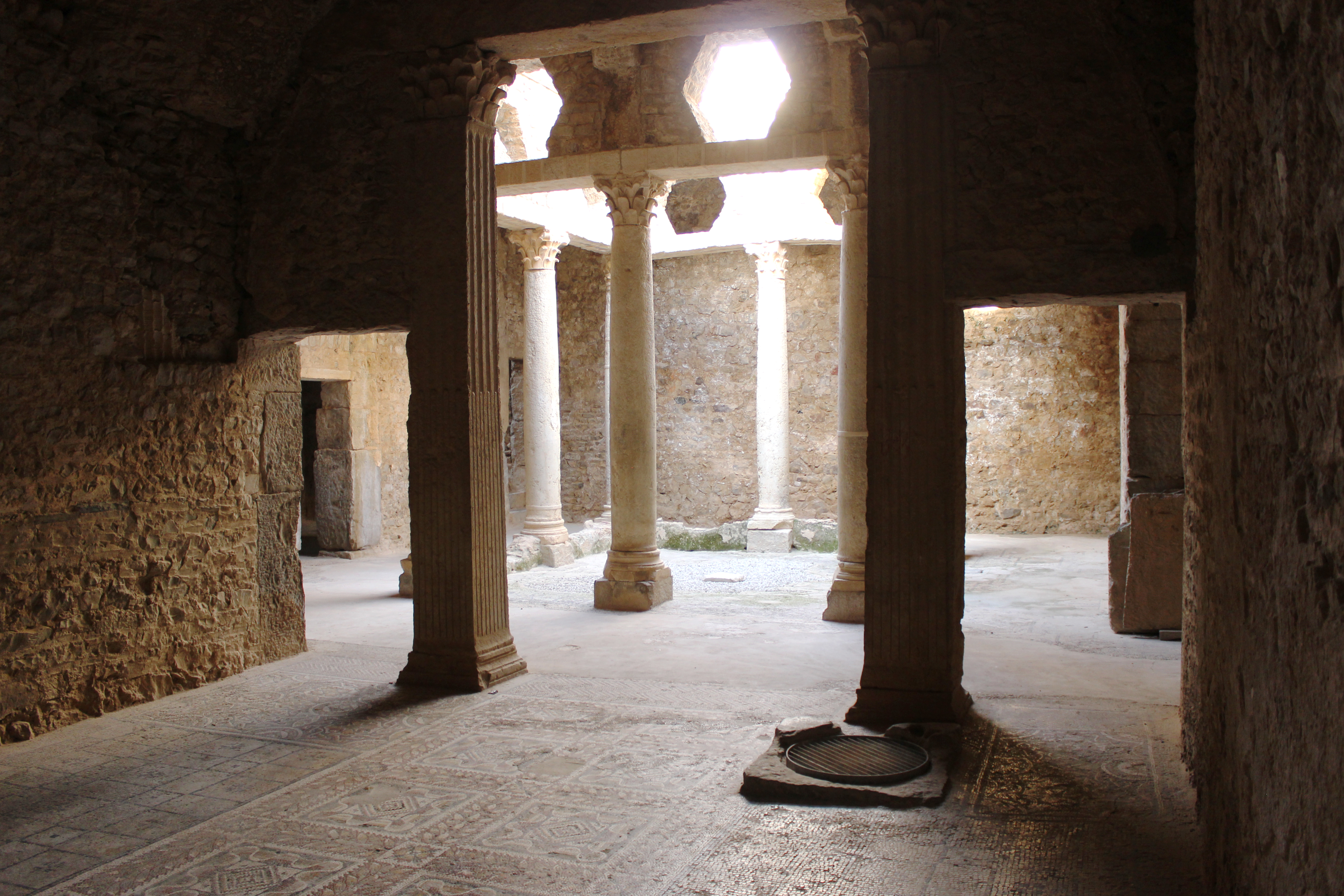 Undergroud house in the archeological site of Bullaregia, with its mosaics on the floor and the underground patio.